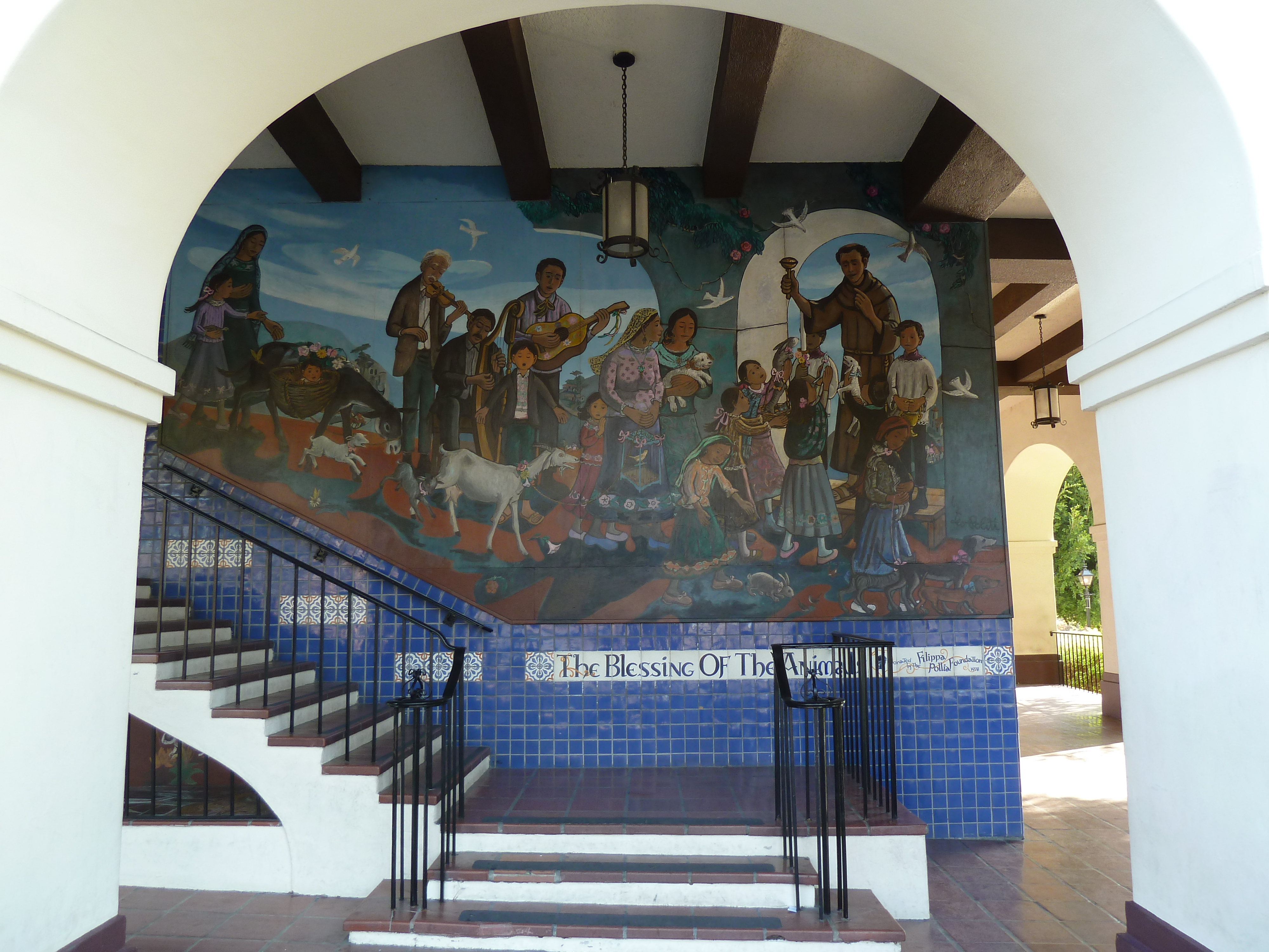 Los Angeles, CA: Bizcailuz Building, Mexican Consul, Hispanic Heritage Center, Blessing of the Animals Mural, Leo Politi, artist, 2012